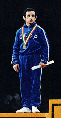 52 kg podium at the 1973 World Freestyle Wrestling Championships in Tehran